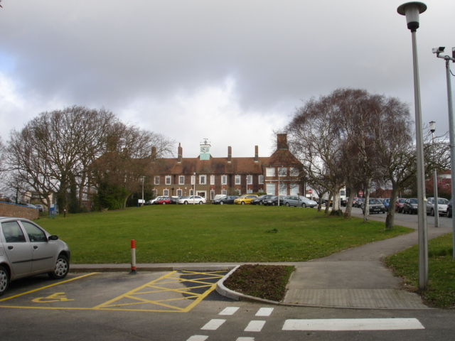 Hospital Bexhill-on-Sea East Sussex. Bexhill Hospital was built in the 1930's from voluntary donations and today,continues to receive financial surport of the people of Bexhill.